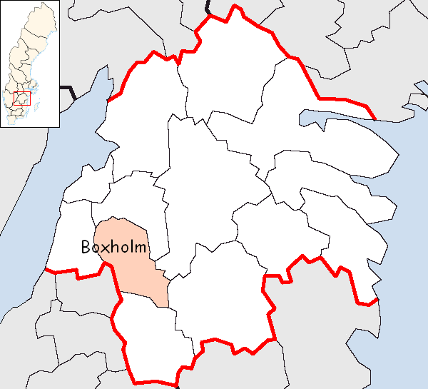 Boxholm Municipality in Östergötland County Designed by me. Mere outlines are a PD source from